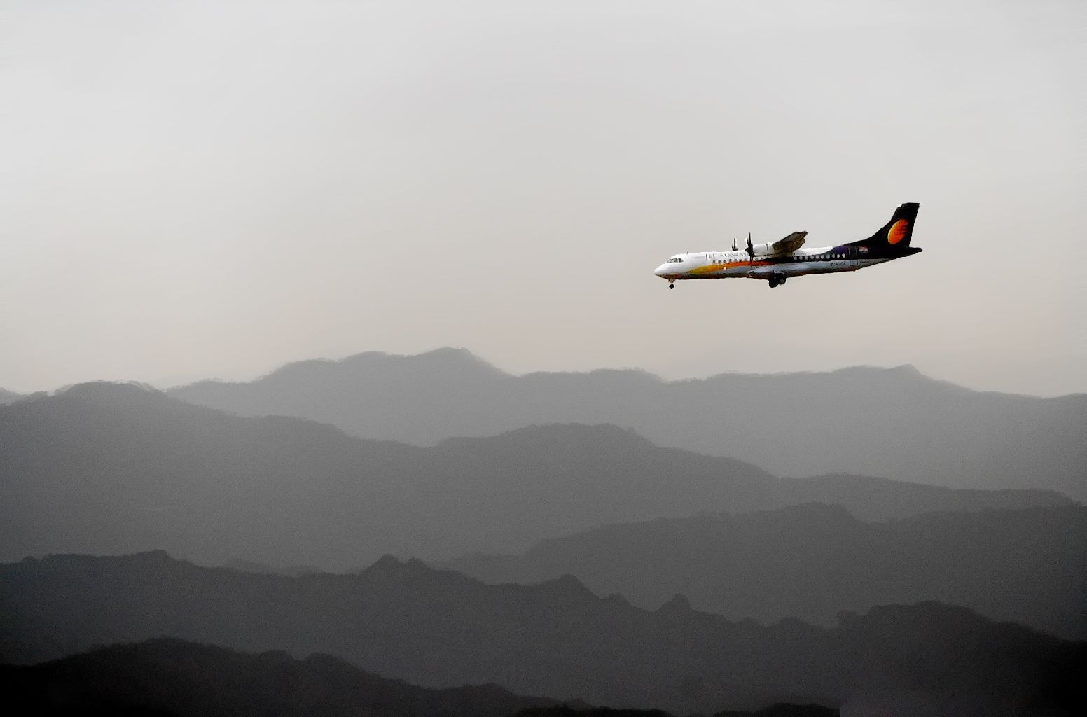 Jetlite flight landing at chandigarh airport